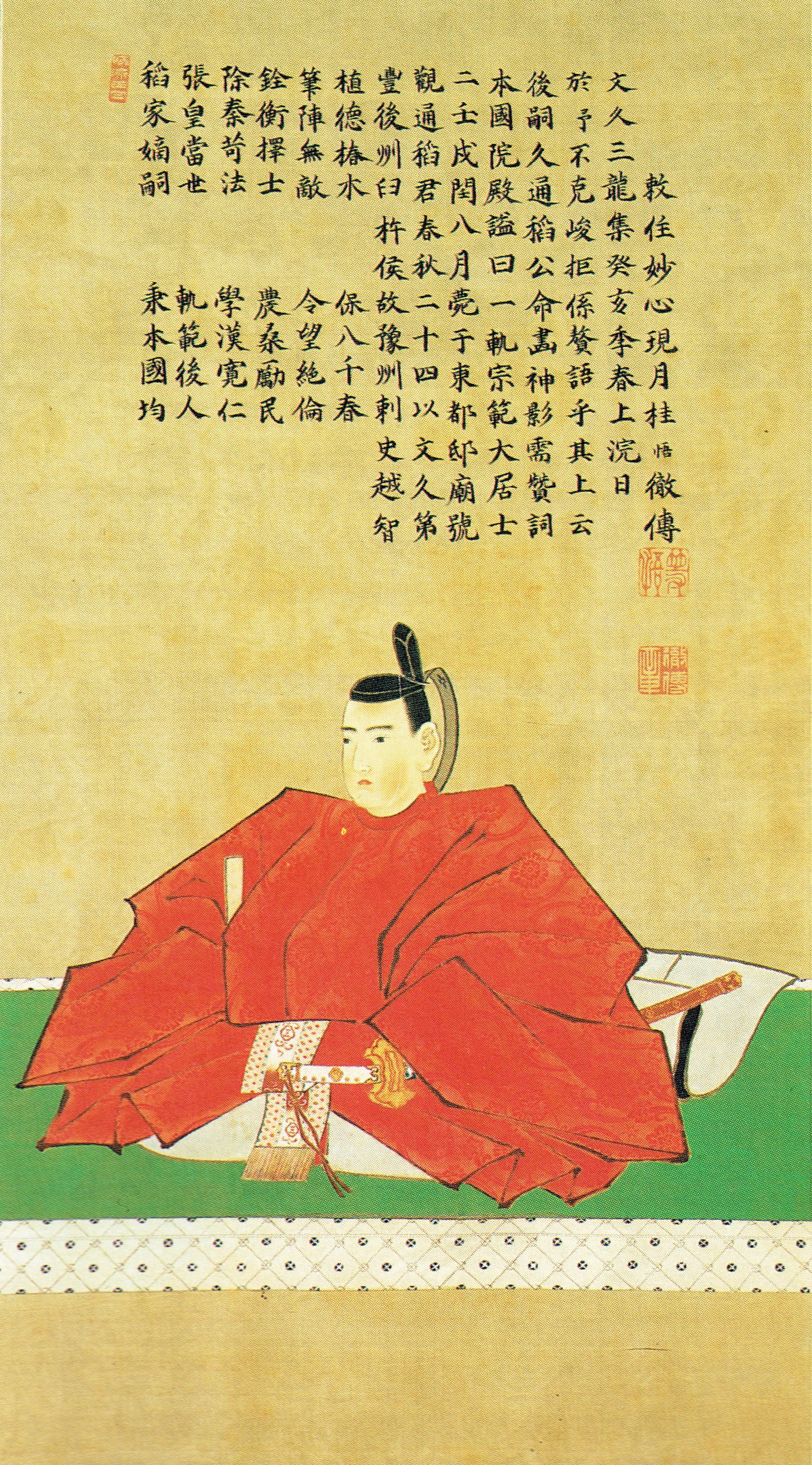 Portrait of Inaba Akimichi, owned by Gekkei-ji Temple in Usuki, Oita, Japan